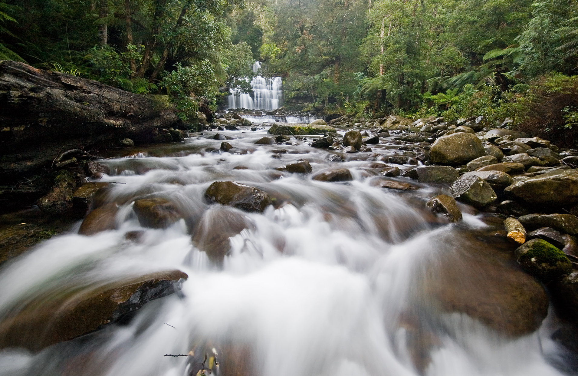 Liffey Falls, Liffey, Tasmania Camera data Camera Canon EOS 400D Lens Sigma 10-20mm F4-5.6 EX DC HSM Filter 4x ND Filter and Circular Polarizer Focal length 10 mm Aperture f/9 Exposure time 1.6 s Sensivity ISO 100